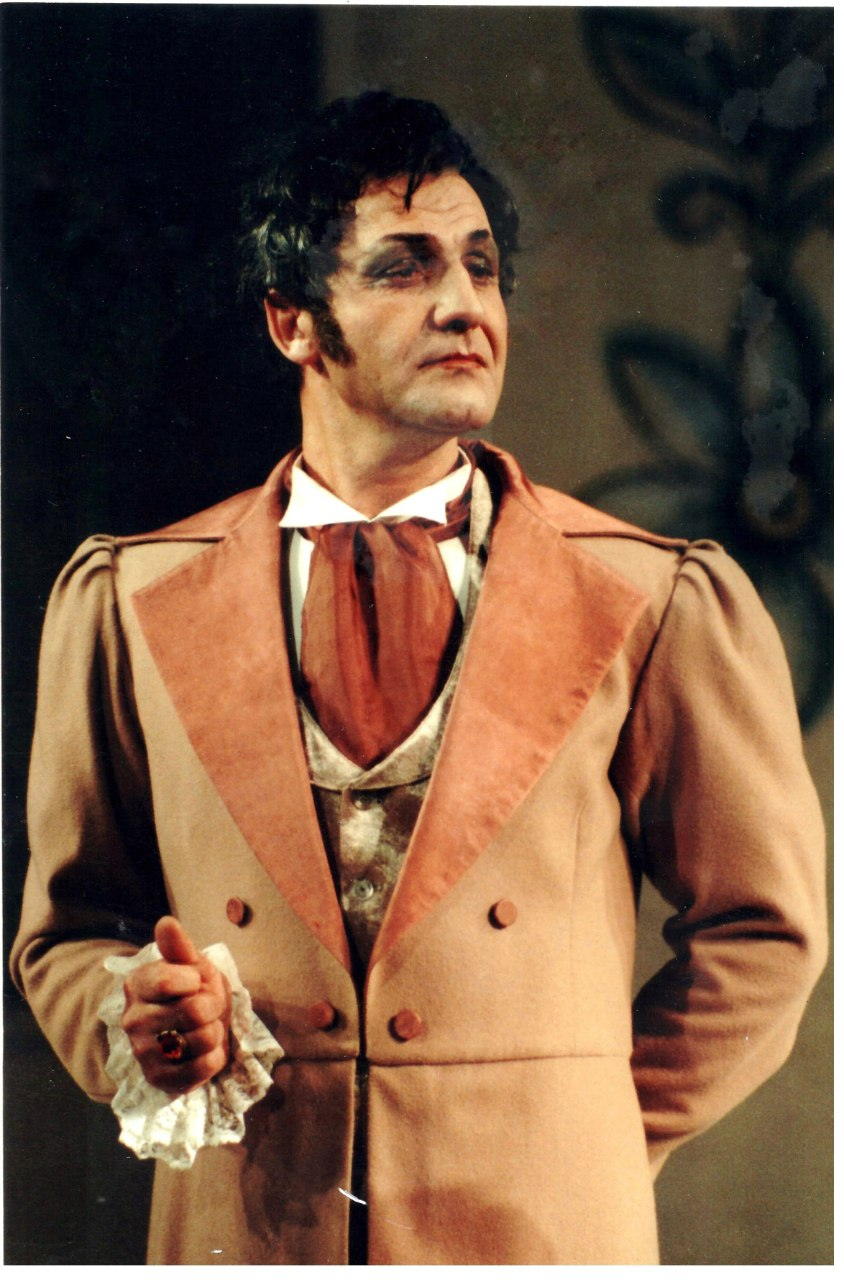 П.В. Ермоленко в роли Е.Онегина